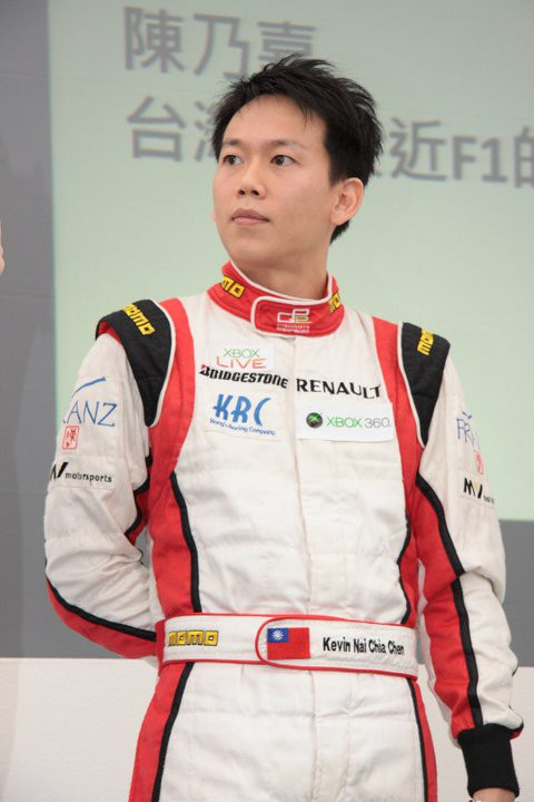 Kevin Chen XBOX Event